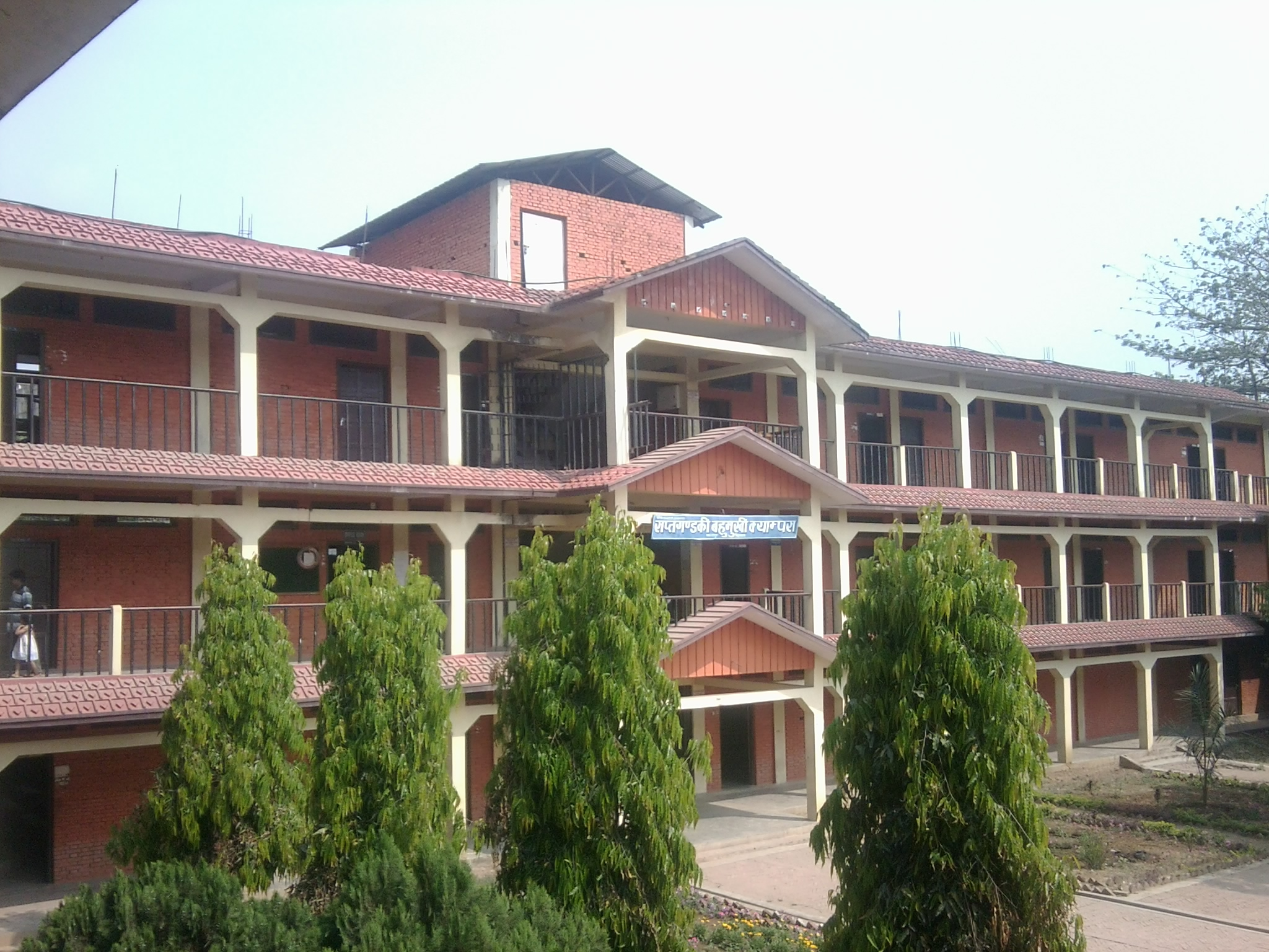 saptagandaki multiple campus is located in chitwan